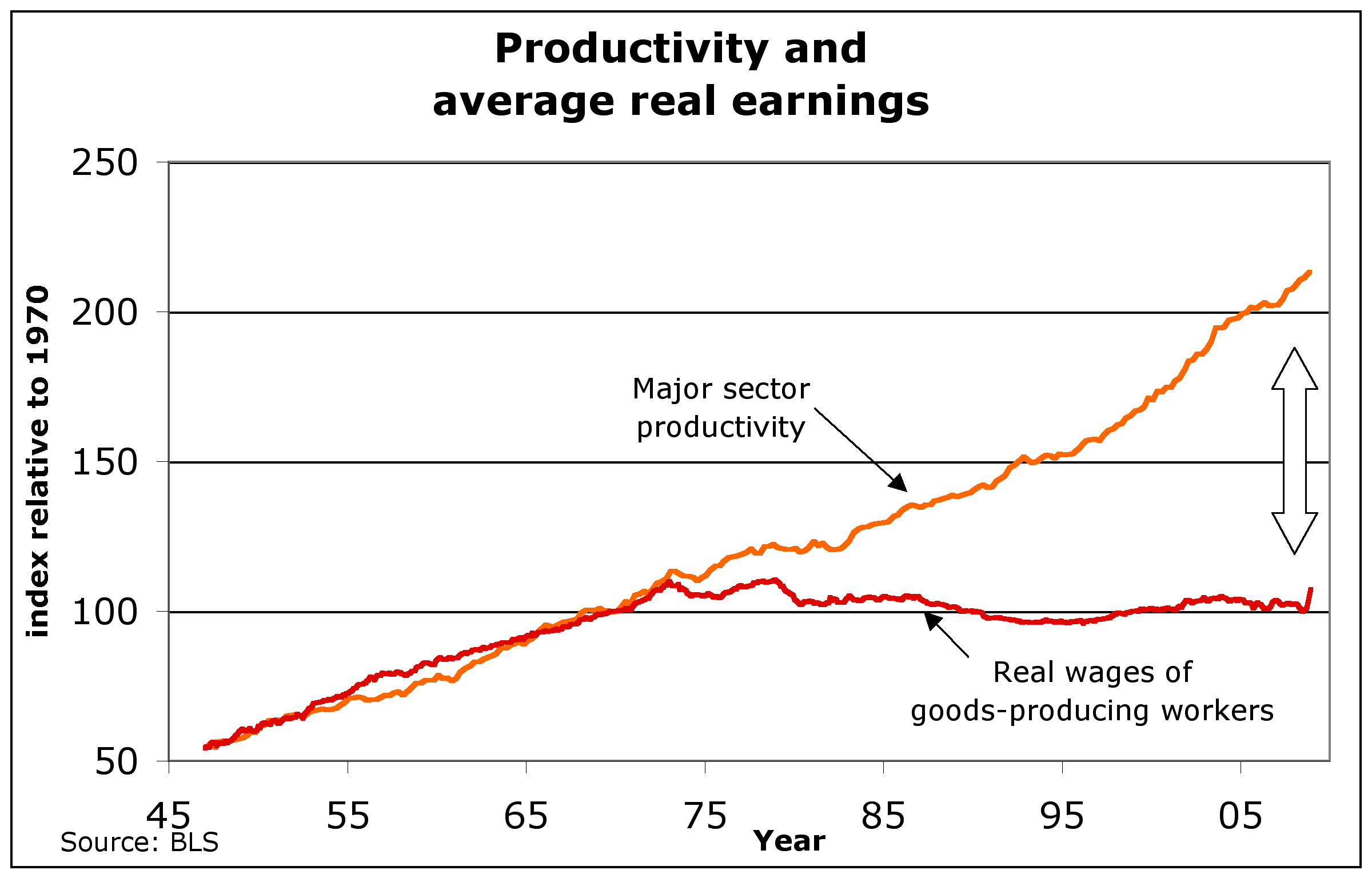 Productivity and average real earnings, 1947-2008